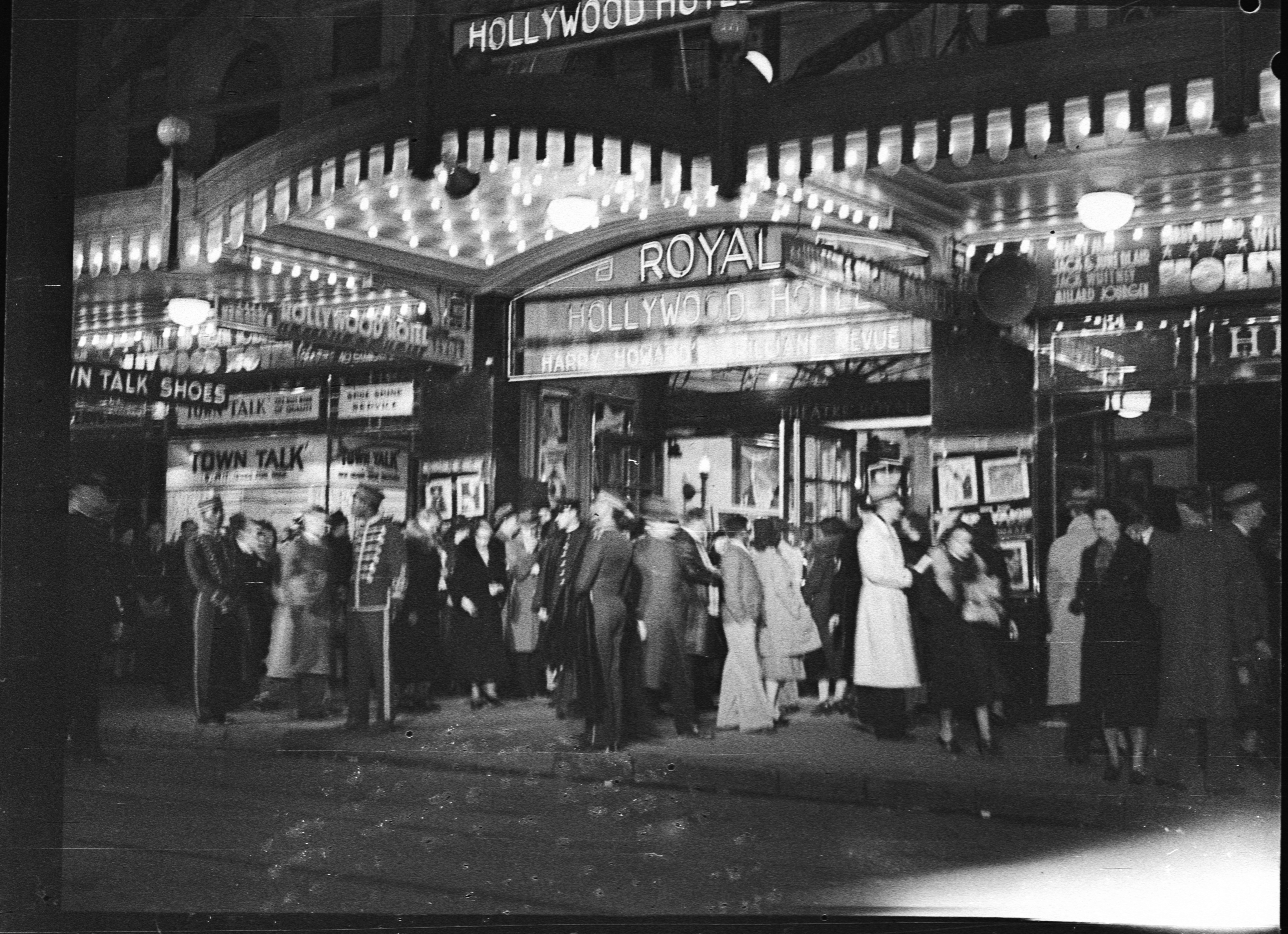 Format: Negative Find more detailed information about this photographic collection: .au/item/itemDetailPaged.aspx?itemID=23988 From the collection of the State Library of New South Wales